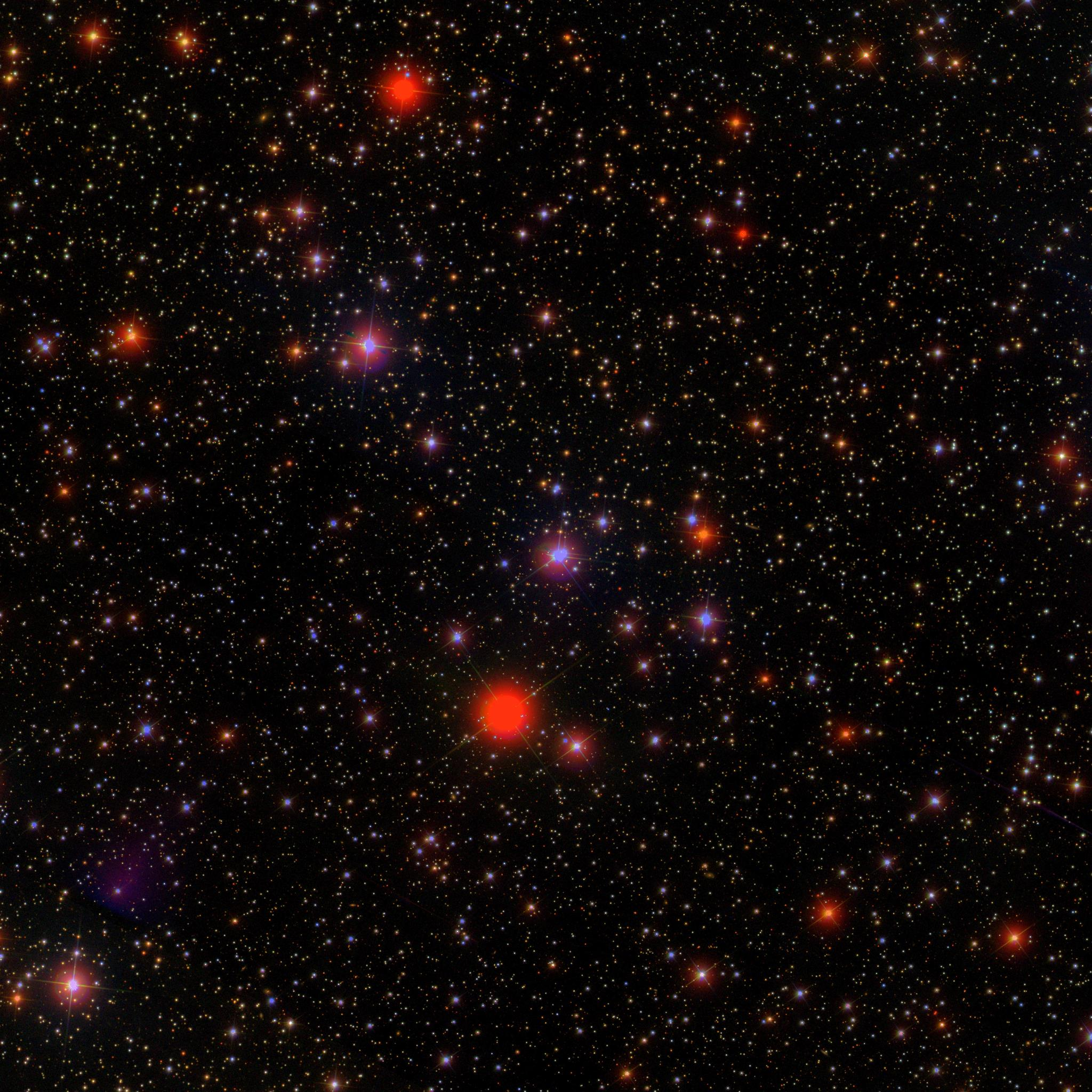 Angle of view: 27' × 27' (0.792" per pixel), north is up.